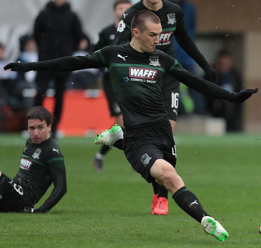 Daniil Utkin with FC Krasnodar in a game against FC Dynamo Moscow.